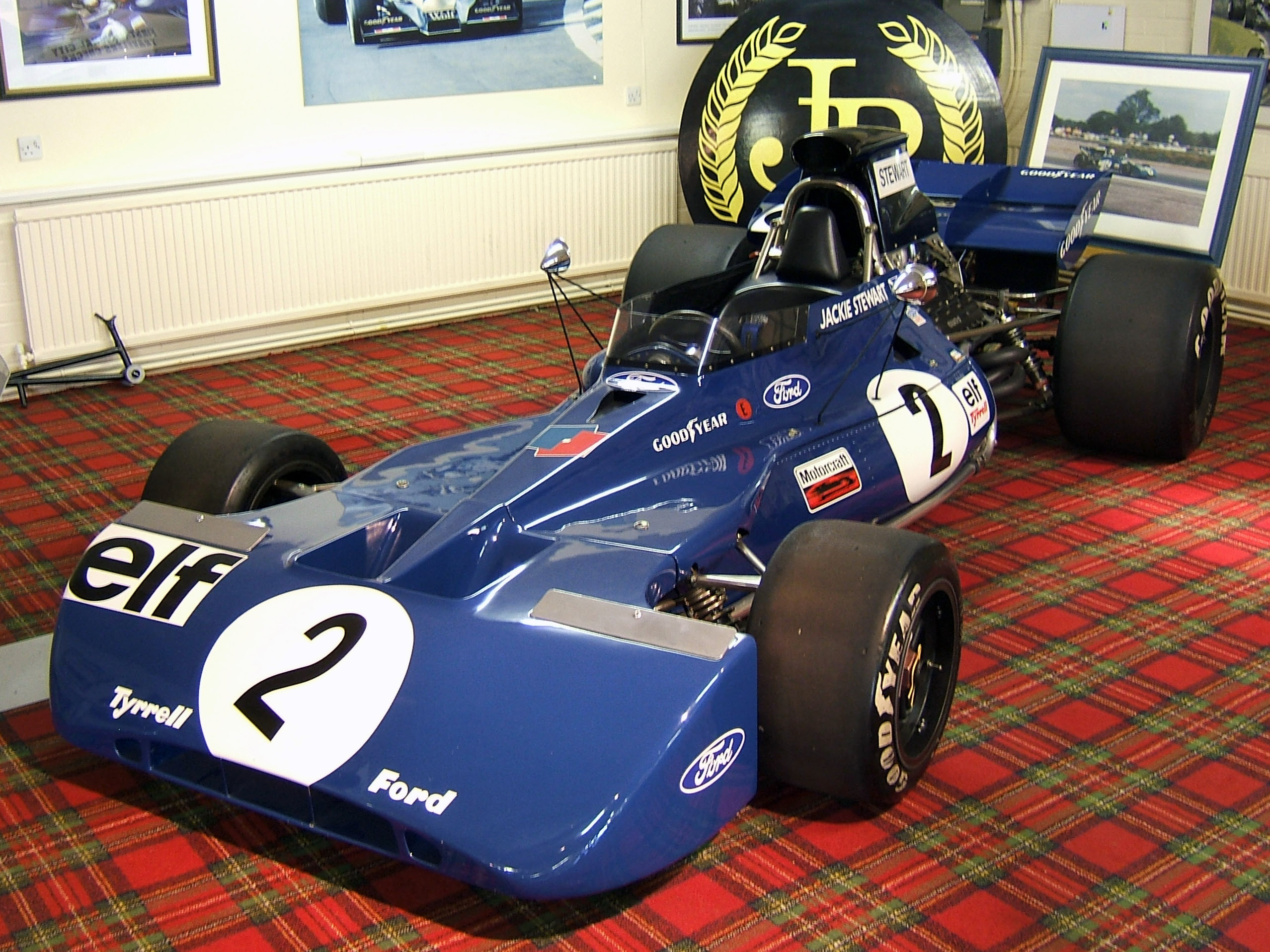 Tyrrell 003 in the Donington Grand Prix Collection museum, Leics., UK.